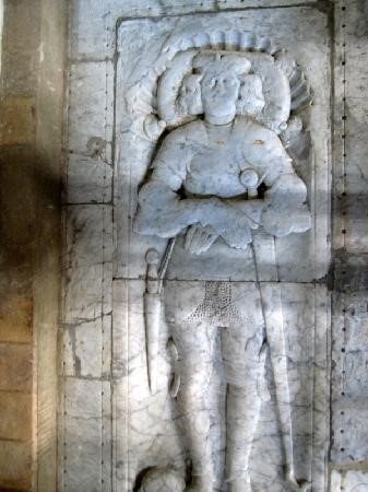 Tomb of Heinrich II of Nassau-Siegen in the Collegiata di San Quirico d'Orcia